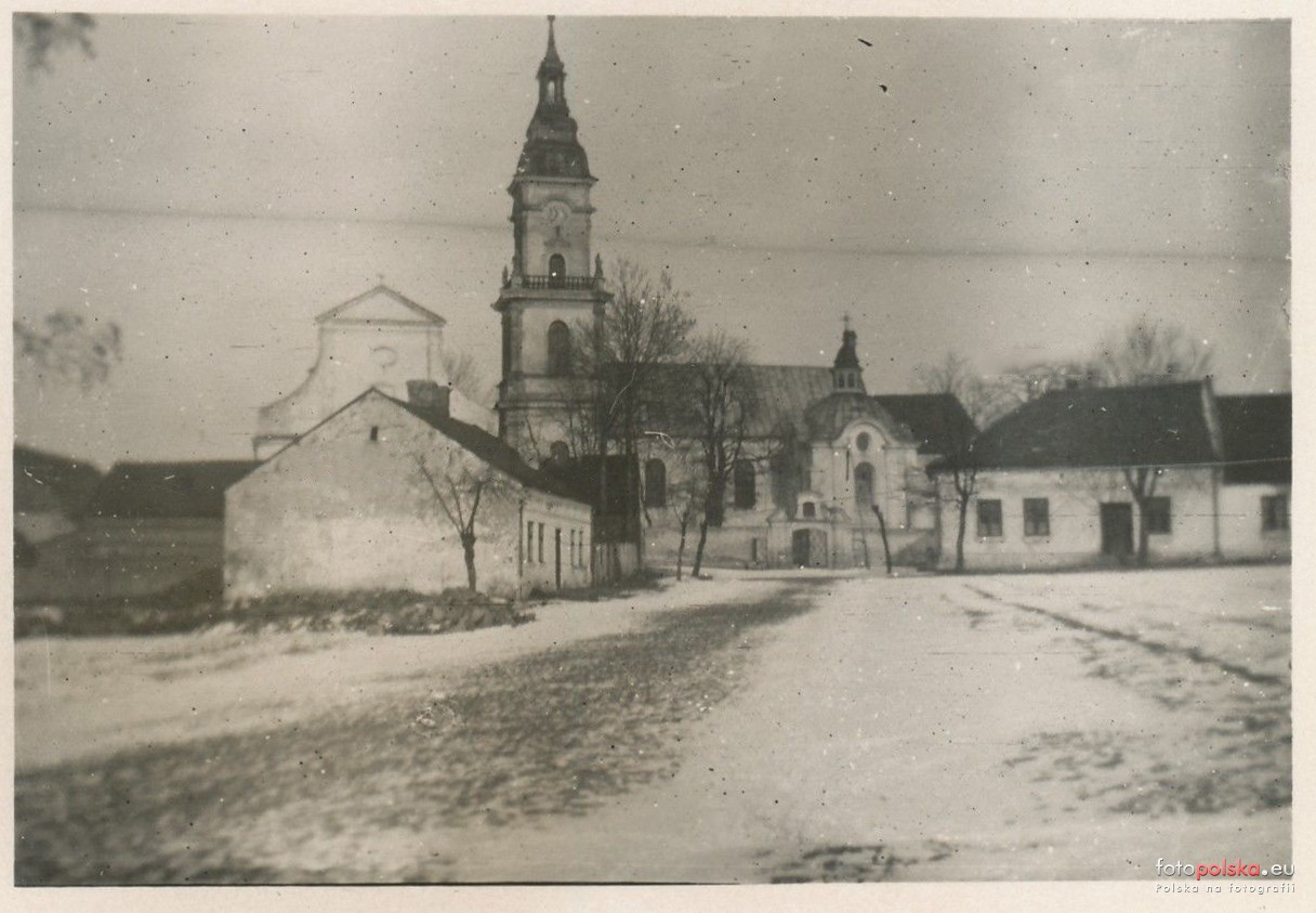 Brdów - center of the town in 1944